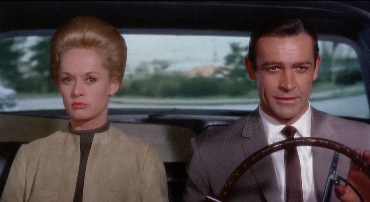 Tippi Hedren and Sean Connery in Hitchcock's "Marnie" trailer.